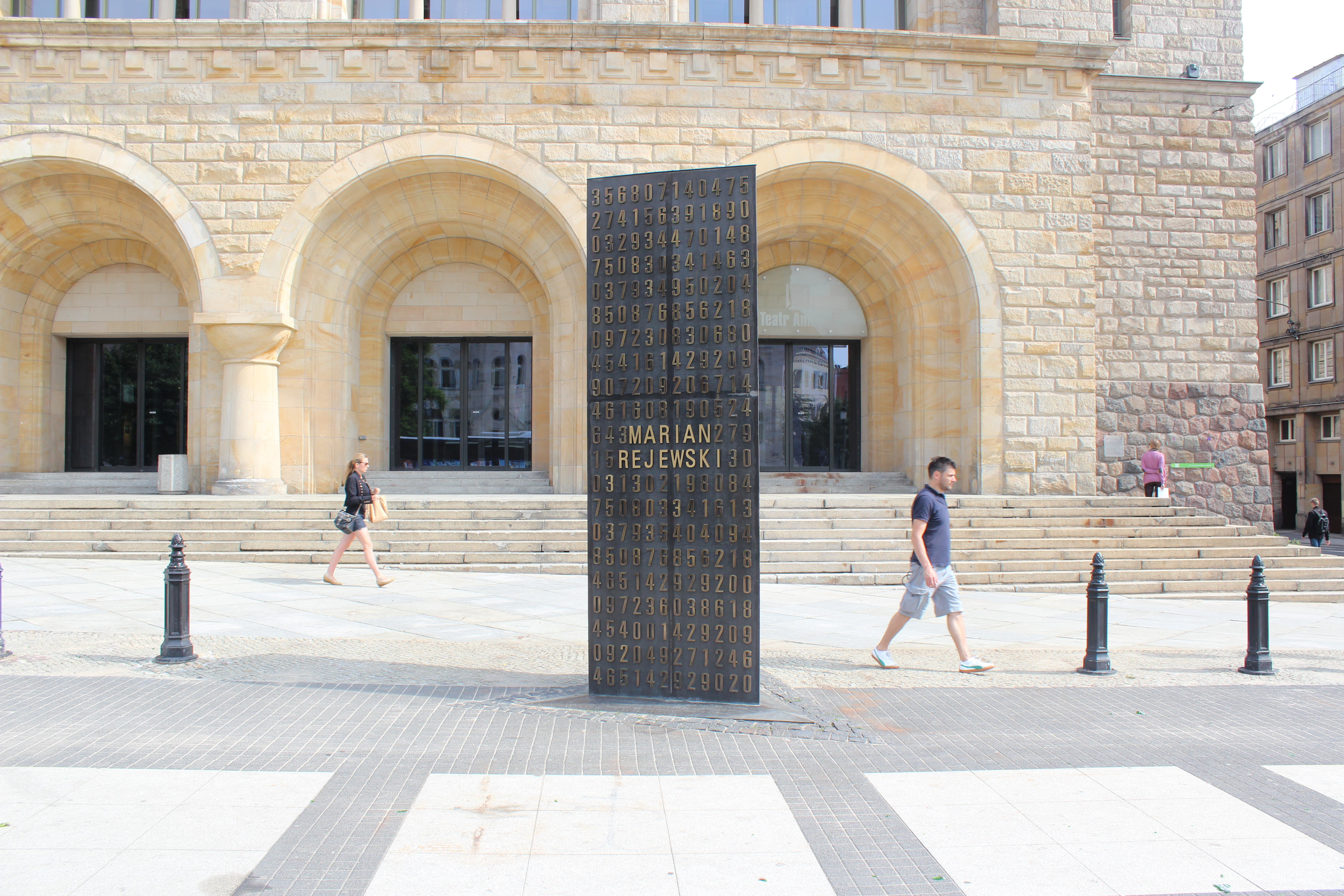 Poznań monument (center) to Polish cryptologists whose breaking of Germany's Enigma machine ciphers